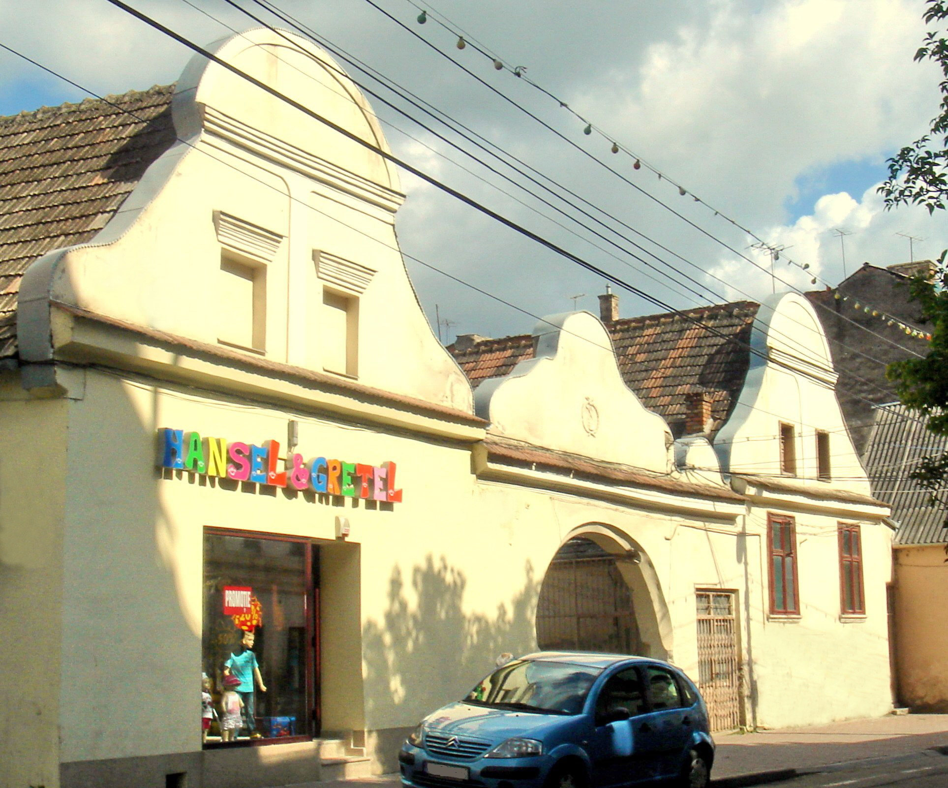 Baroque houses (47 and 48 Republic Square)